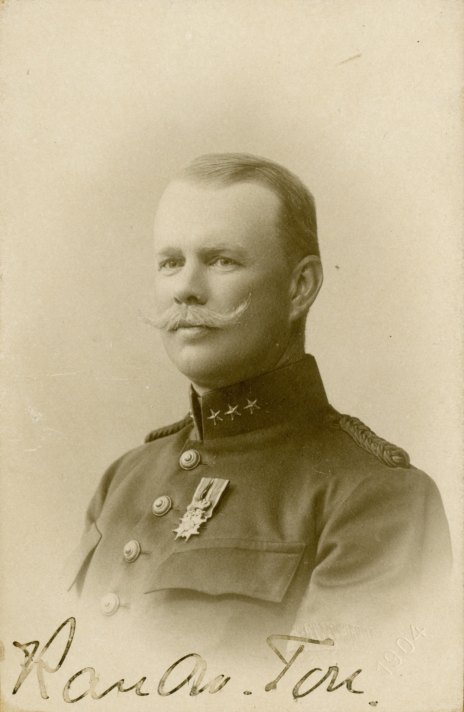 Portrait of Karl Osvald Toll, officer of Småland Artillery Regiment (A 6).